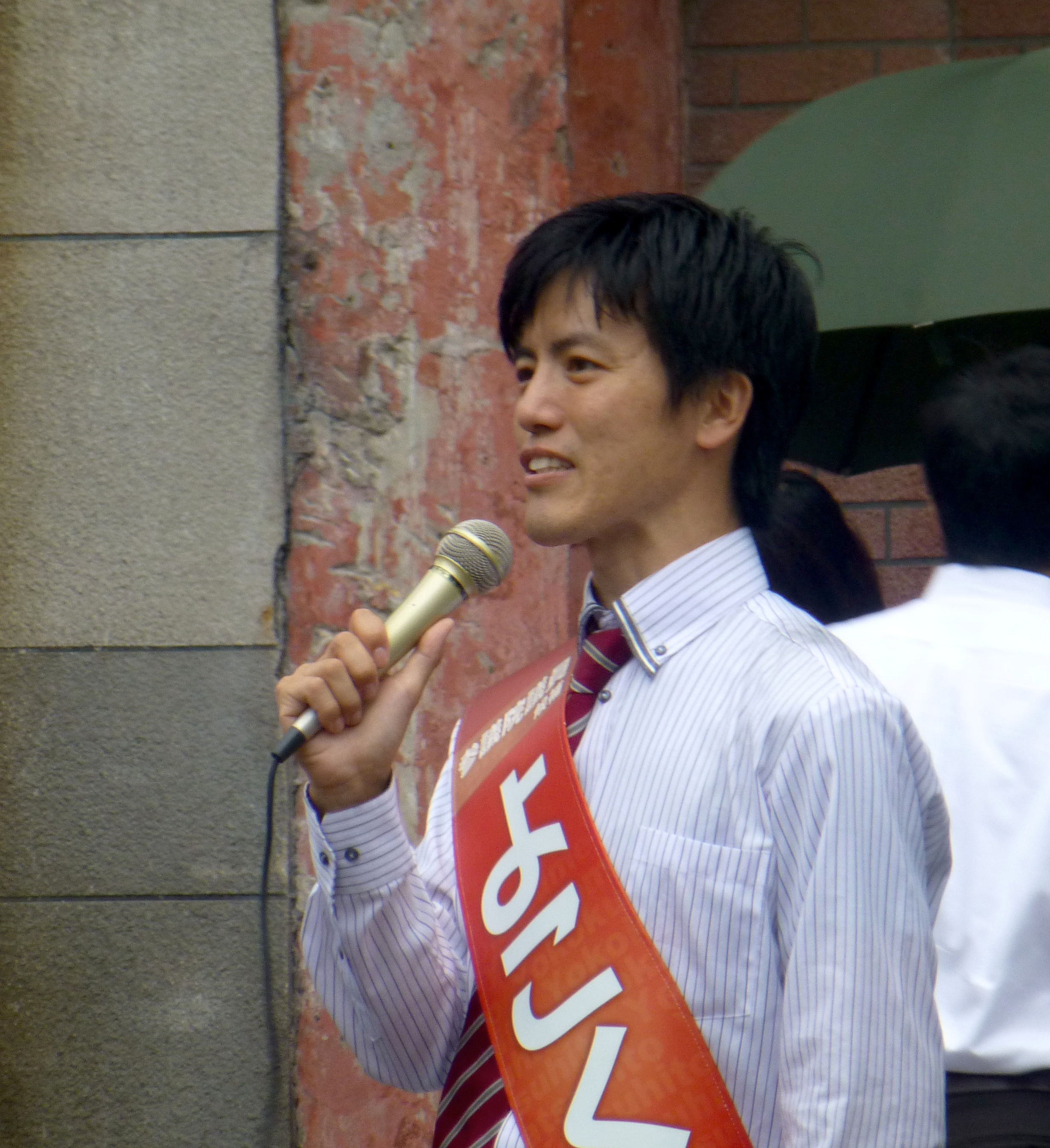 Democratic Party of Japan politician Katsuhito Yokokume campaigning in Shimbashi, Tokyo